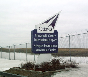 I took this photo myself in March 2004. It is at the entrance to the Ottawa International Airport, in Ottawa, Ontario, Canada.